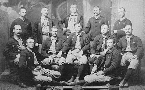 1888 Kansas City Cowboys team photograph, crop.Standing, L-R: Henry Porter, Myron Allen, Bill Fagan, Jim McTamany, Henry EasterdayMiddle row, L-R: Sam Barkley, Jumbo Davis, Dave Rowe, Fatty Briody, Frank HankinsonSeated on floor, L-R: Jim Donahue, John Kirby